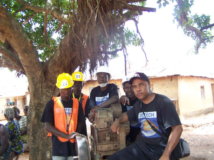 GEOTECH GLOBAL MINING C por A Exploration Mining Service GeoTech Global Mining C por A is a Central American based company with affiliates GeoTech Entities in America, South America, West Africa and Europe. The company is focused in rendering a complete range of services provided large scale and junior mining companies exploring in the Global Market, helping them to create value in the mining business. The company was developed to maintain and update an interesting database of exploration mining projects as well as metallurgical and business opportunities in the mining area.